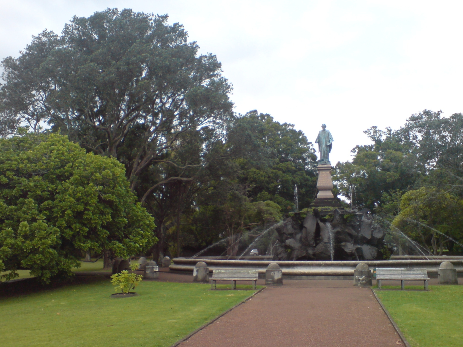 A statue of John Logan Campbell in Auckland City, New Zealand. The statue is registered by the New Zealand Historic Places Trust as a Category I structure, with registration number 4478.